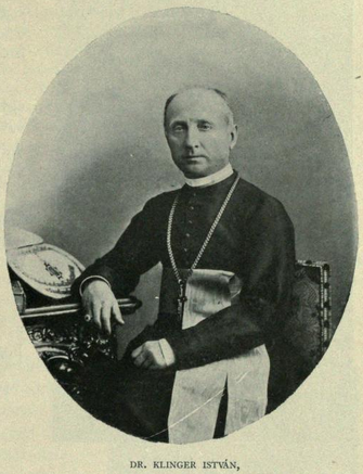 Portrait of Klinger István